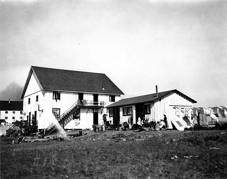 From John Cobb field notebook: Native quarters, Semiahmoo, Wash. 1917 . On verso of image: A.P.A., Semiahmoo, Wash. Indian quarters, 1917 Subjects (LCTGM): Canneries--Washington (State)--Semiahmoo; Labor housing--Washington (State)--Semiahmoo Subjects (LCSH): Industrial housing--Washington (State)--Semiahmoo